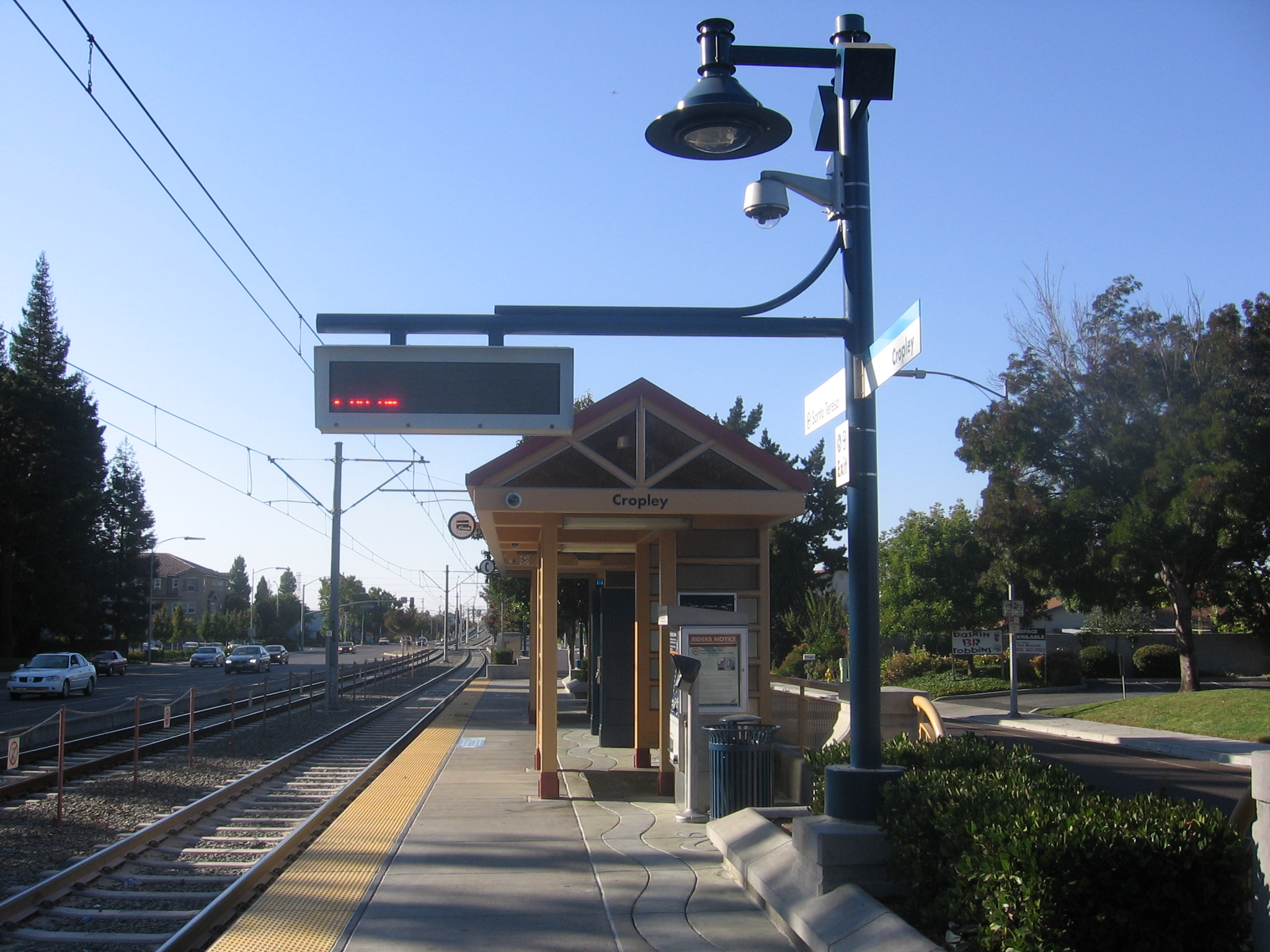 The Cropley (VTA) light rail station in San José, California, USA.